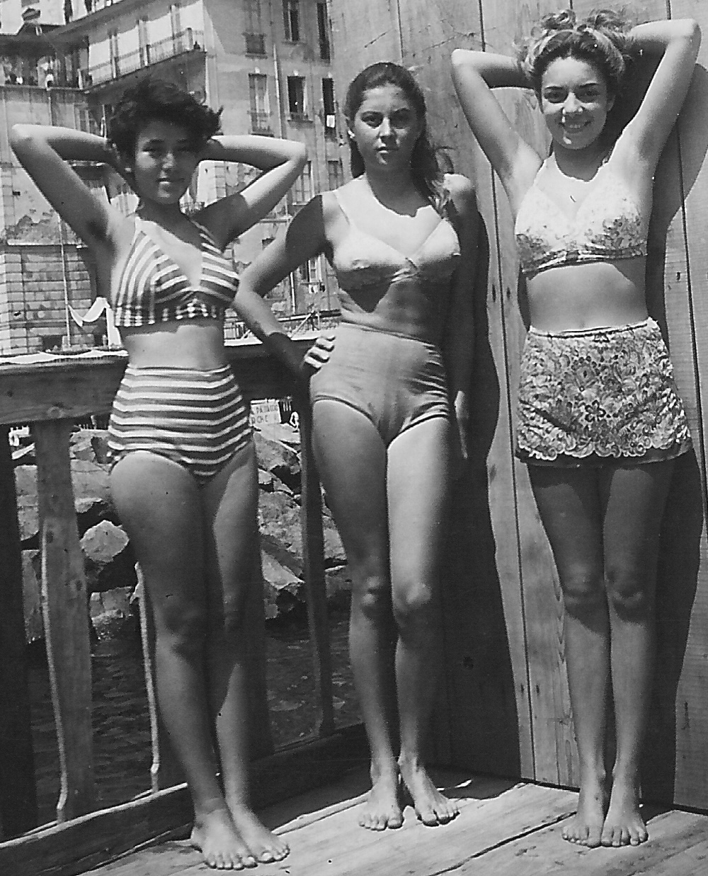 Young local women in swimsuit, Naples, Italy.